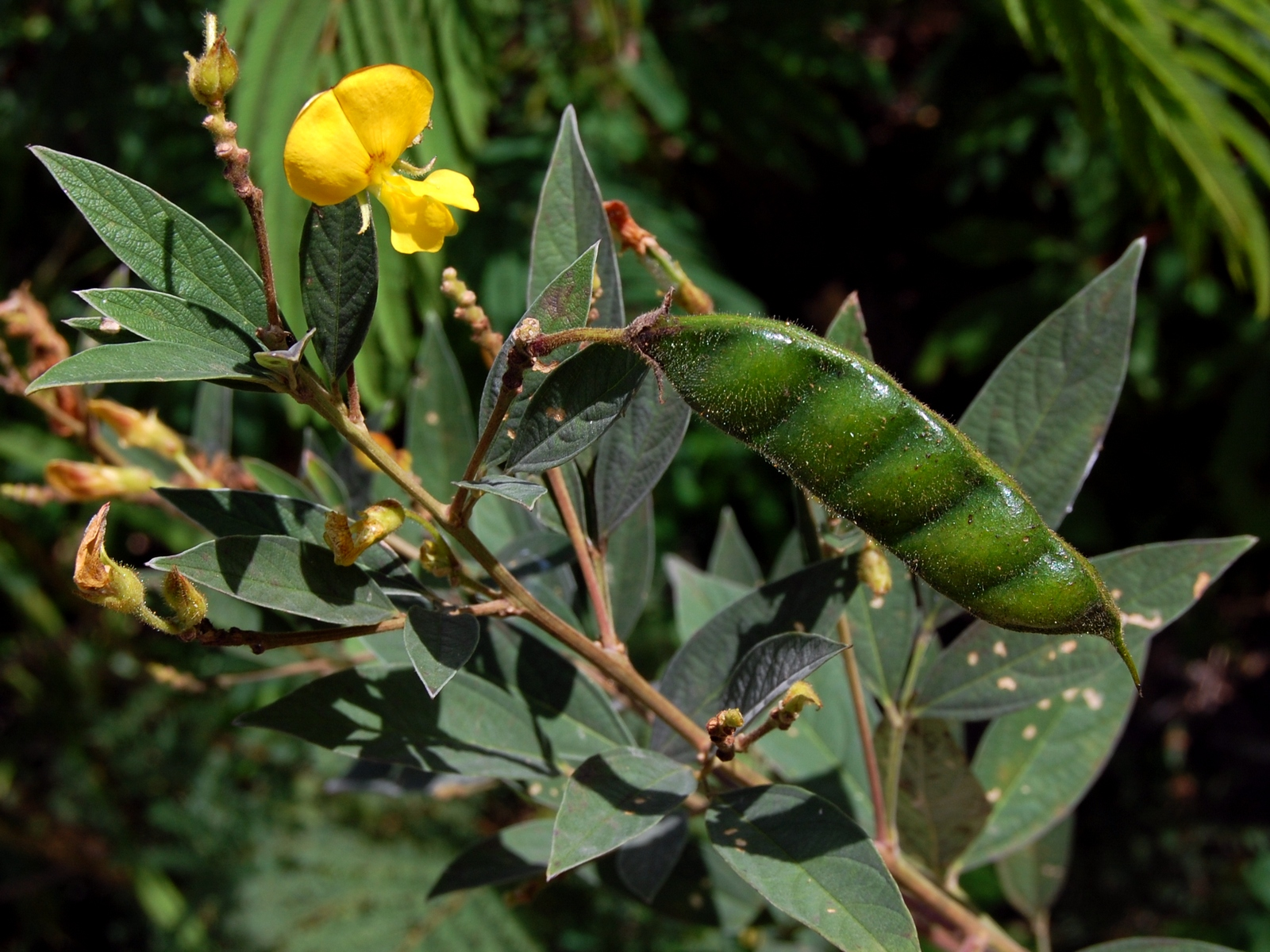 Pigeon pea Cajanus cajan, planted in Ayotupas, West Timor, Indonesia. Flower and young pod.